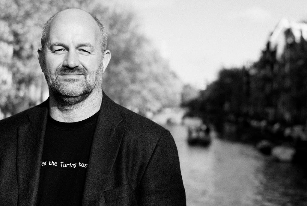 Image as part of the Dutch Digital Pioneers collection